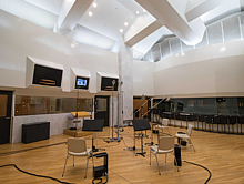 Studio A renovated in 1987